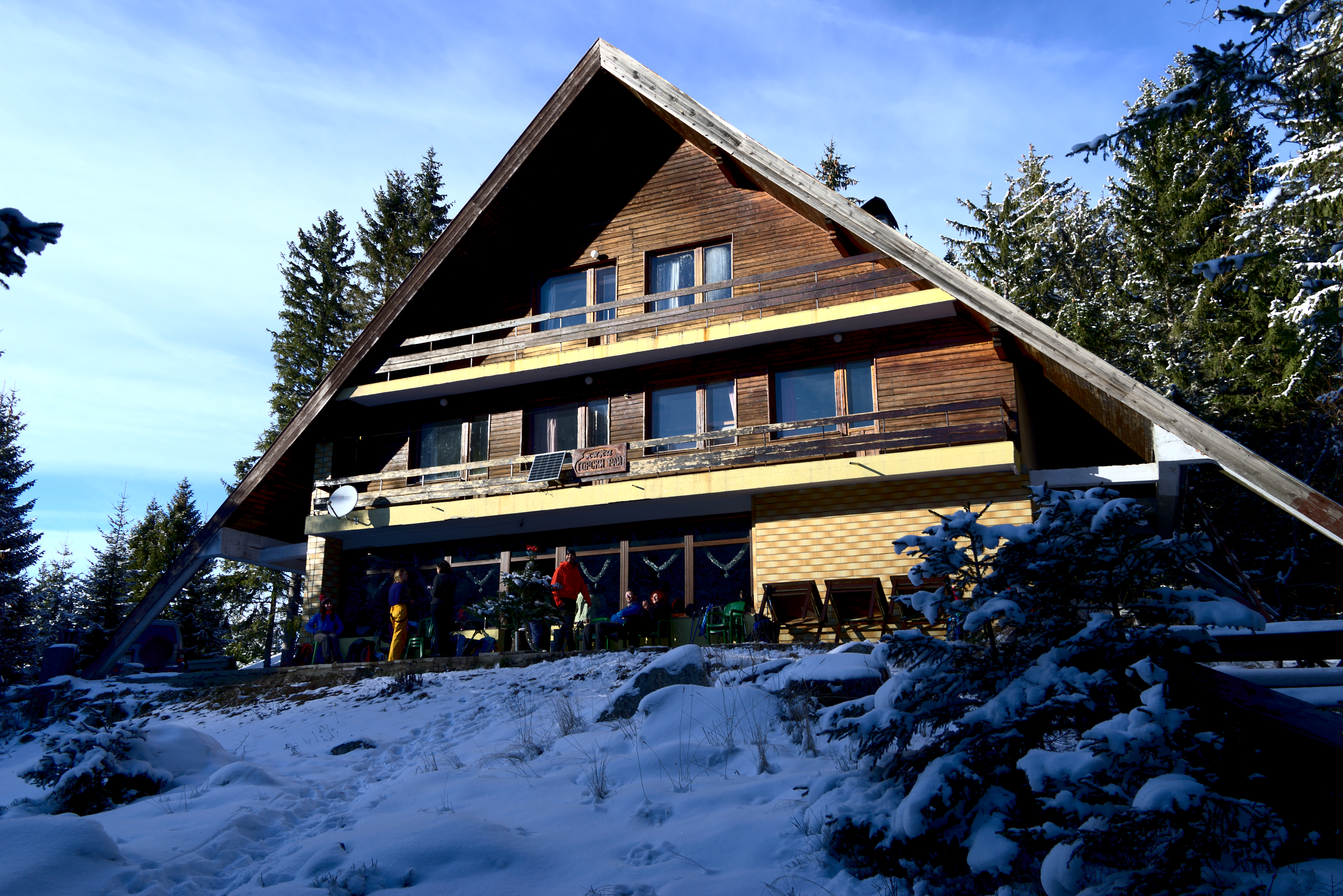 Photo of mountain hut "Forest paradise", near Chuprene, Bulgaria.